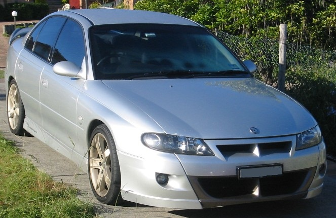 2002 HSV VXII Clubsport R8